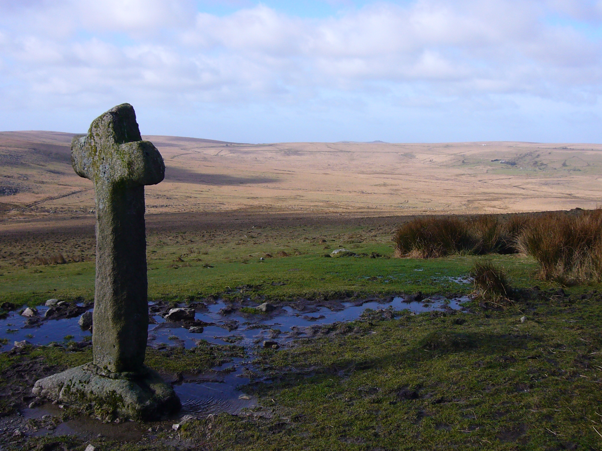 The cross at Mt Misery, Dartmoor probably marking the route for monks travelling between Buckfast & Tavistock. In the background the basin is Fox Tor mire, a peat bog. It may well have been the inspiration for Grimpen Mire in the "Hound of the Baskervilles"